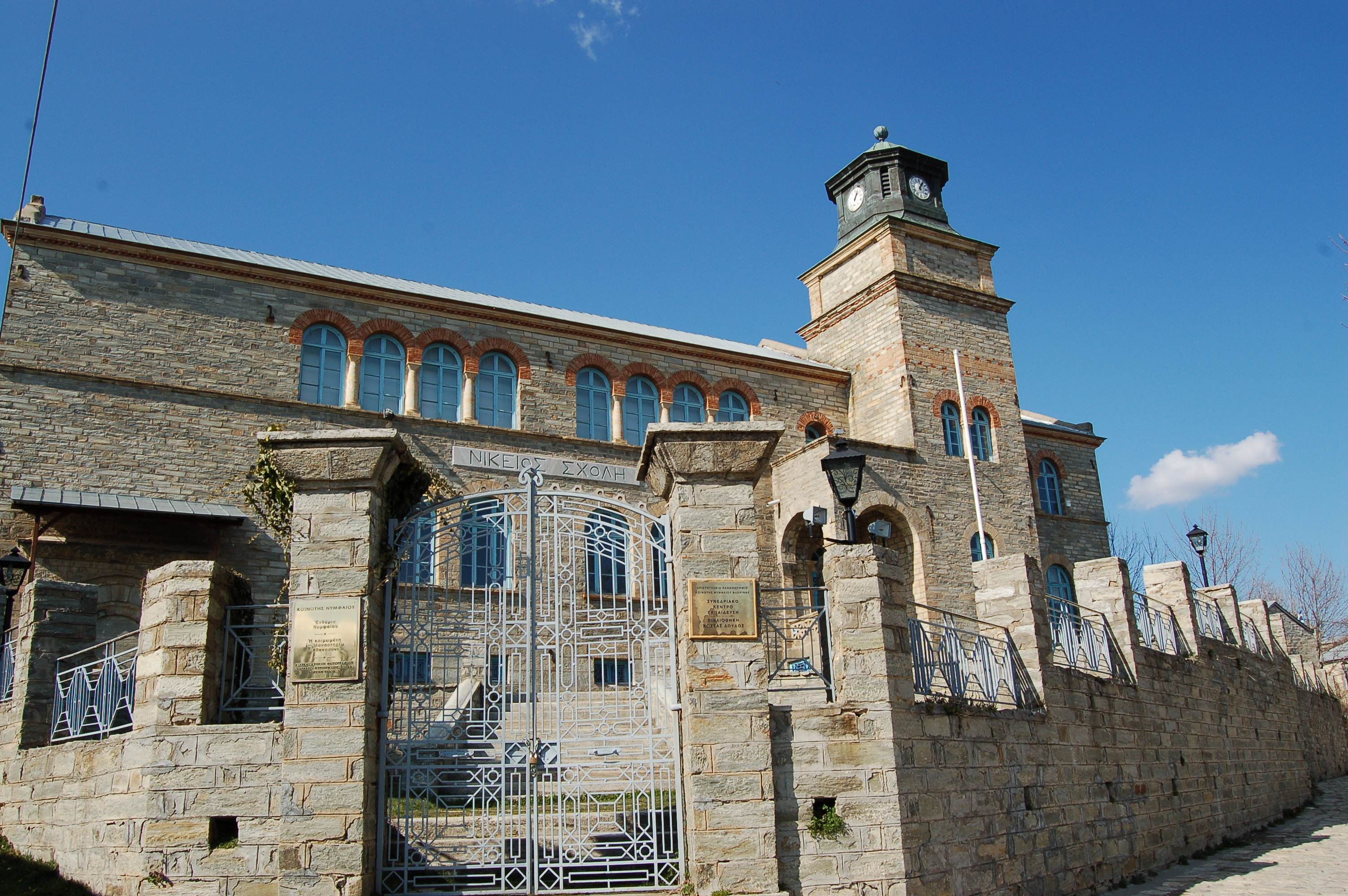 Greece - Nimfeo - Nikios school